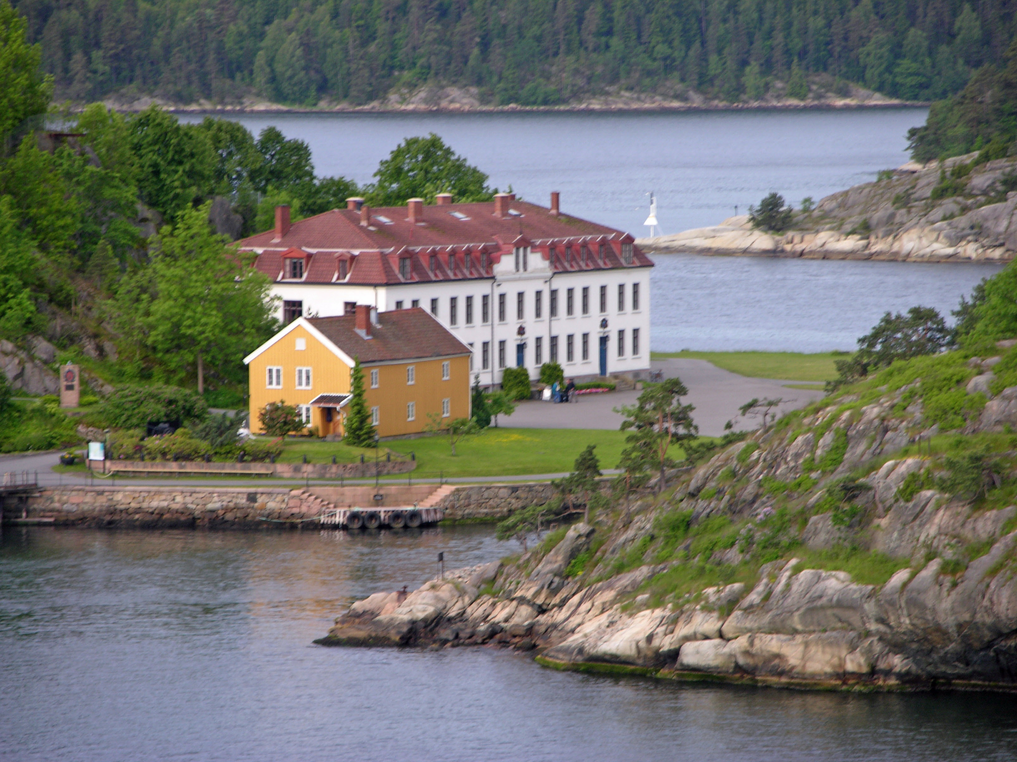 One of the buildings at Oscarsborg at the isthmus of Drøbaksundet, Oslo fjord, Norway, where the German 2nd world war ship Blucher was sunk April 9th 1945.